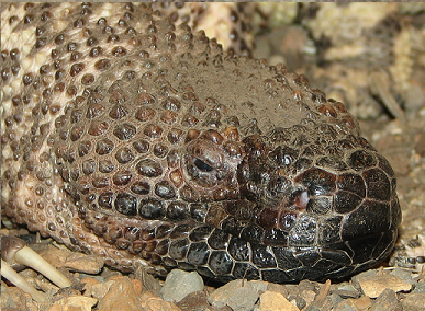 Comparison of the heads of the Gilamonster Heloderma suspectum (below) and the Mexican Beaded Lizard Heloderma horridum (above). The latter always has markings on the head, the Mexican Beaded lizard doesn't.